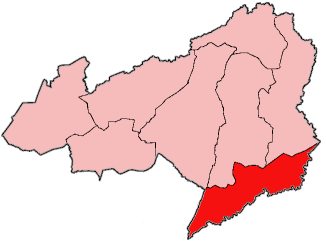 Map of Bong County, Liberia showing Kokoyah District; created with the GIMP. Made by User:Acntx.